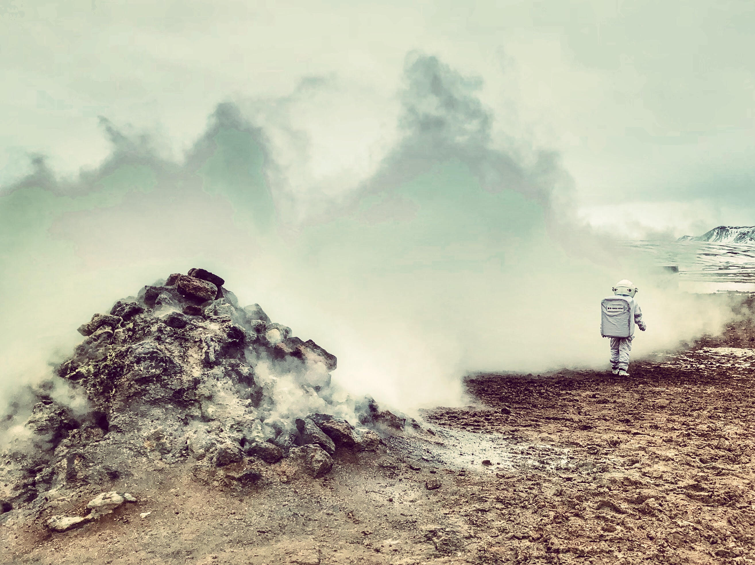 Space Nation astronaut training in Mars-like landscape in North East Iceland in February 2018.